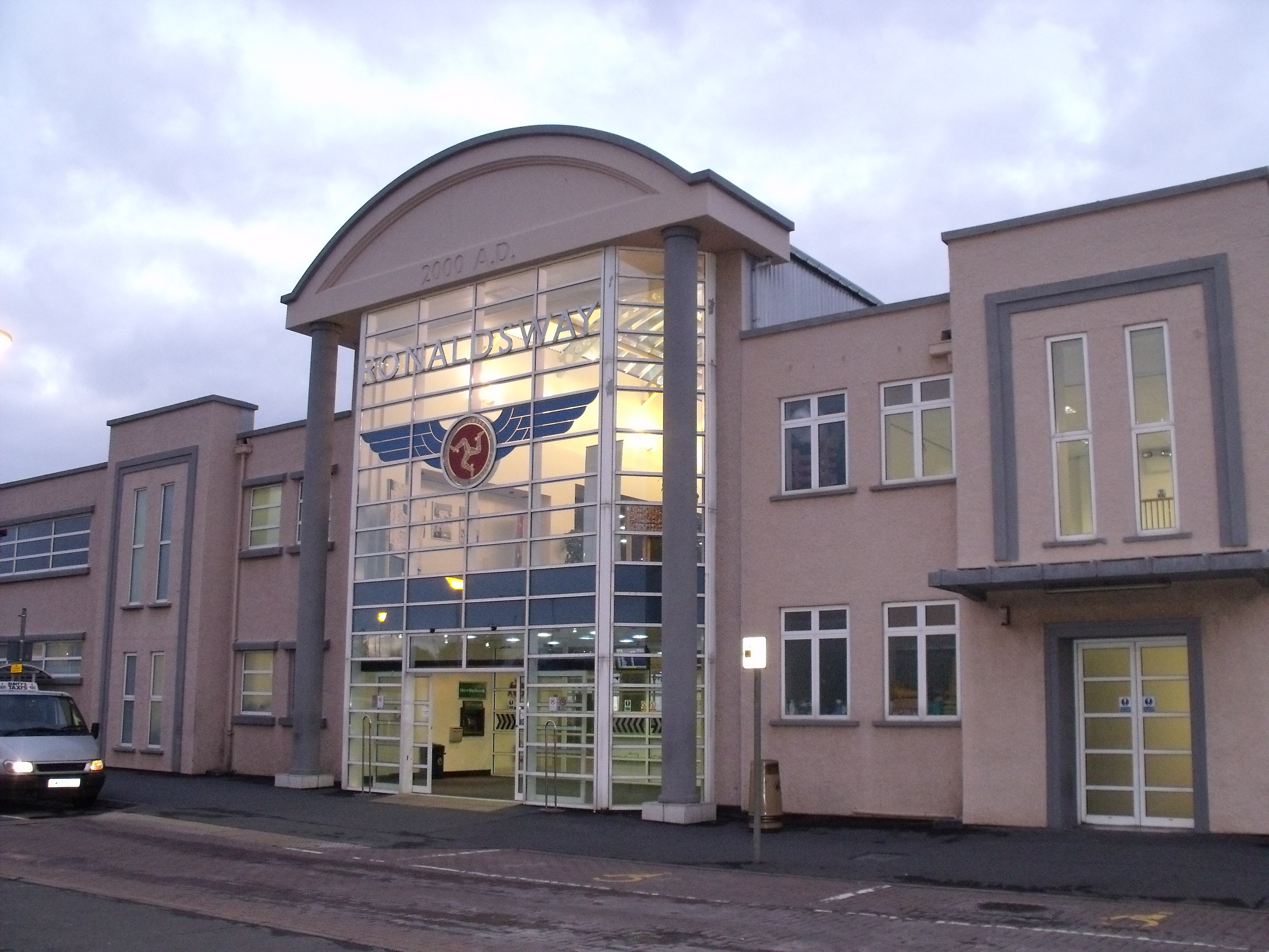 Ronaldsway Airport